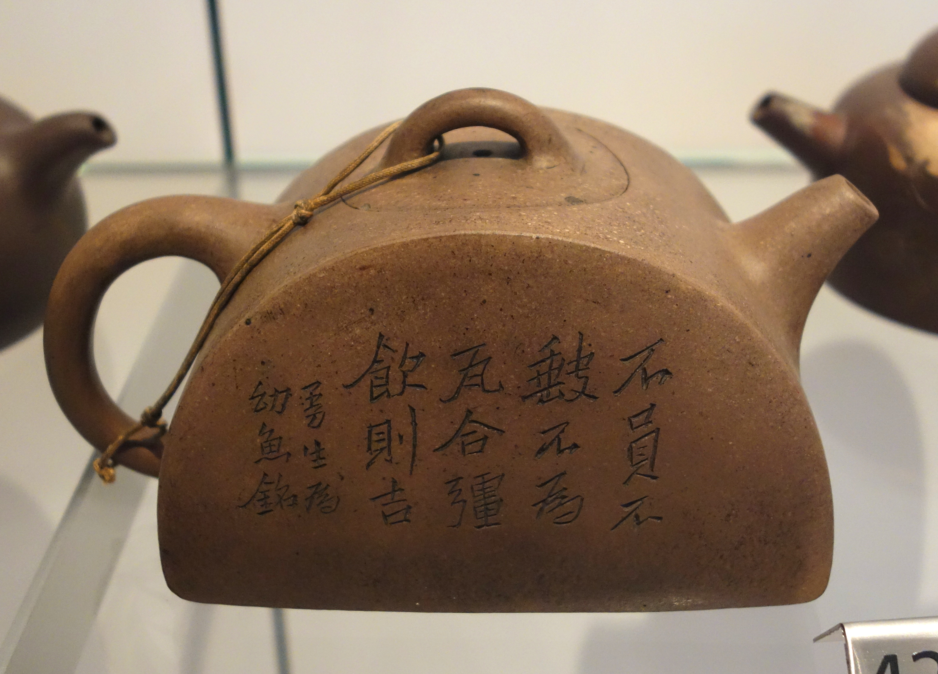 Exhibit in the Royal Ontario Museum, Toronto, Ontario, Canada. This work is old enough so that it is in the public domain.